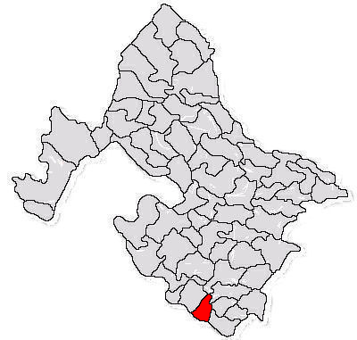 Locator map of the commune of Vrata, Mehedinți County, Romania